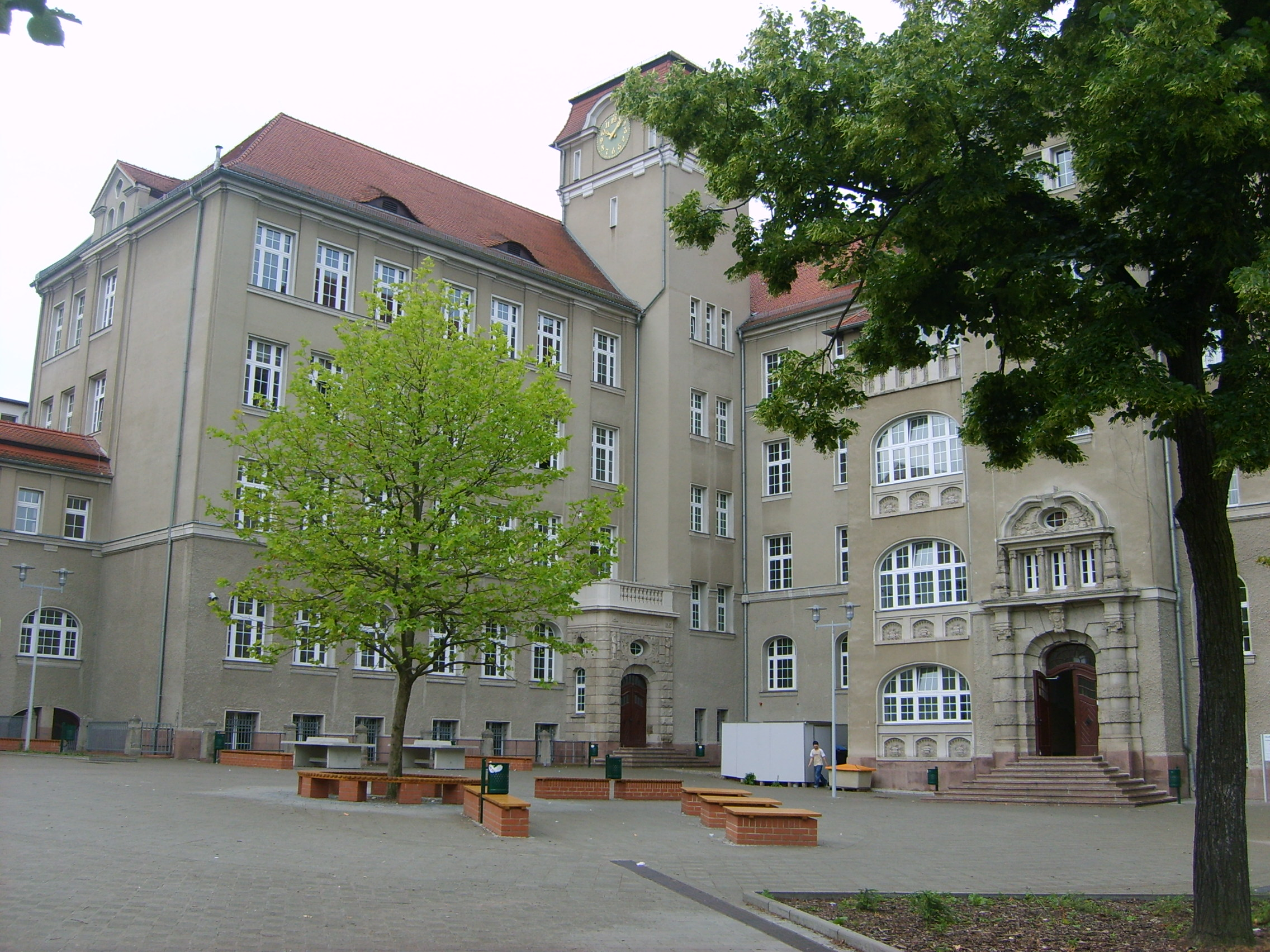 View of Georg-Cantor-Gymnasium Halle